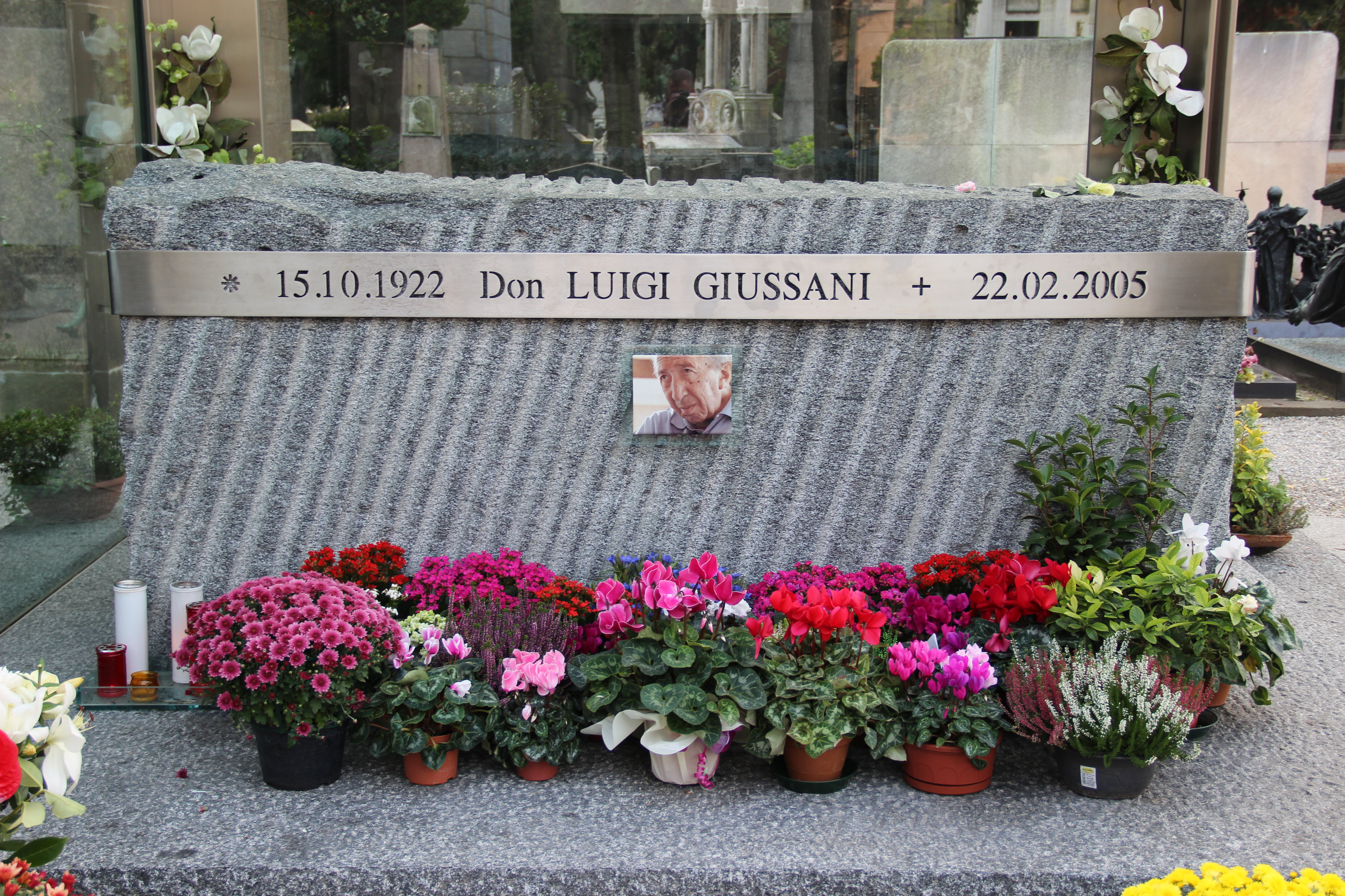 Burial plot Luigi Giussani on the Cimitero Monumentale (Milan)